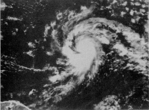 Tropical Storm Chris on August 17, 1994 over the open waters of the Atlantic